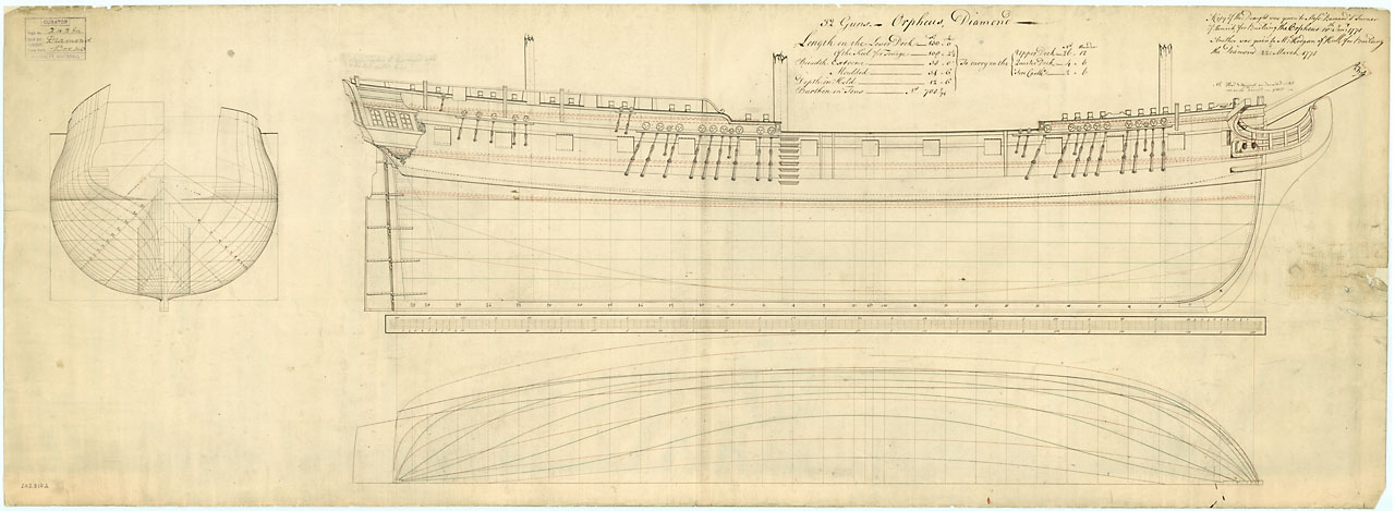 Diamond (1774), Orpheus (1774) Scale 1:48. Plan showing the body plan, sheer lines with modifications to decks and sten timbers, longitudinal half breadth both for Diamond (1774), Orpheus (1774)both 32-gun, Fifth Rate Frigates. Annotation, top right: "A Copy of this Draught was given to Messers Bernard & Turner of Harwich, for building the Orpheus, 18th Jan 1771. Anotherwas given to Mr Hodgson of Hull for Building the Diamond 22nd March 1771." front "N.B. Head & Bowspirit as described in Red are as the Diamond was fitted." front pencil "N.B. Stern Timbers to be carried at to the Red spotted lines." DIAMOND 1774